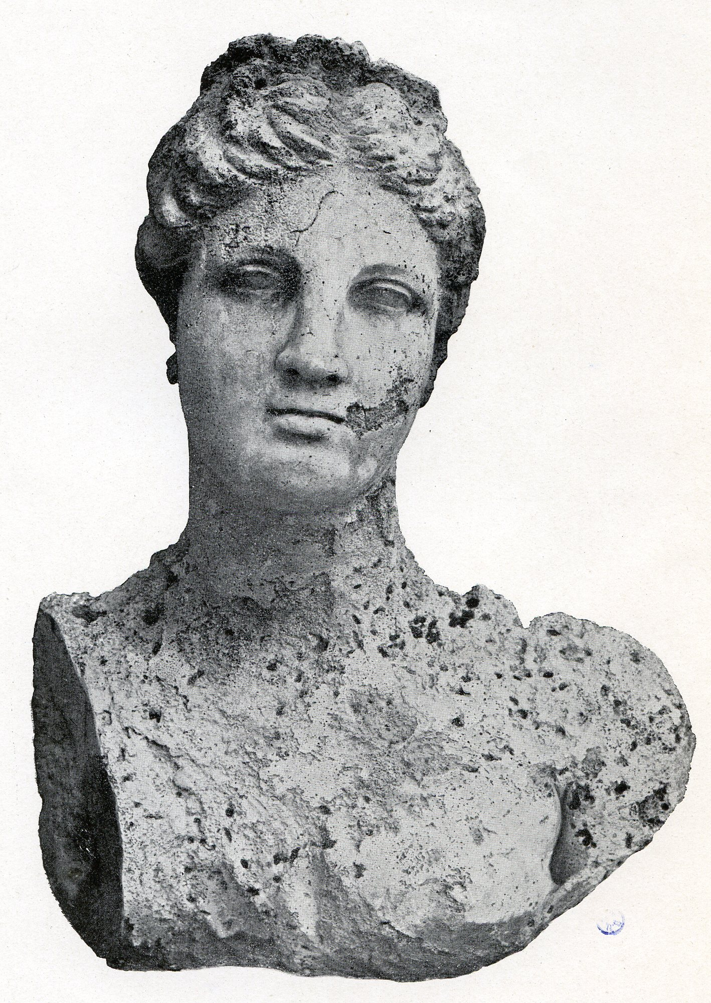 Bust of Aphrodite, from the Mahdia wreckage, Bardo National Museum, Tunisia.